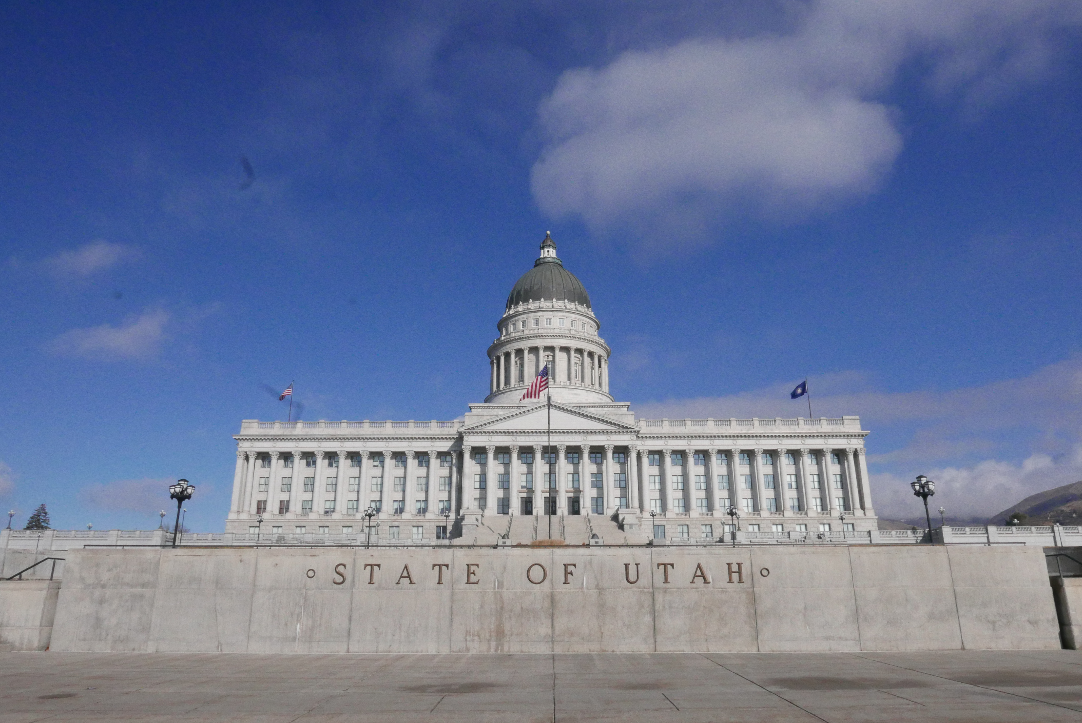 A photograph of the Utah State capitol building in Salt Lake City, UT.